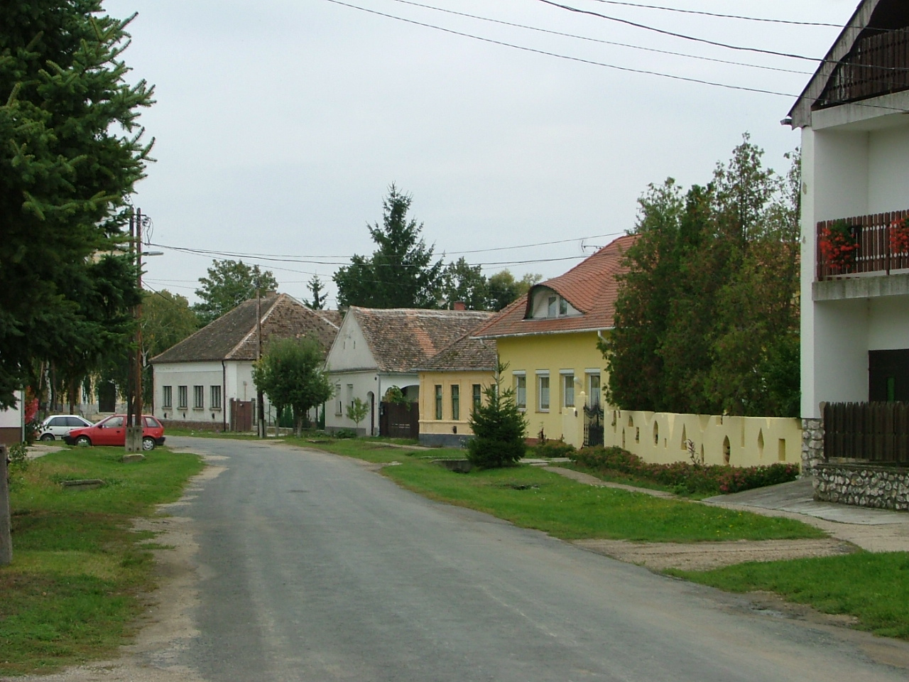 Ebergőc, street view